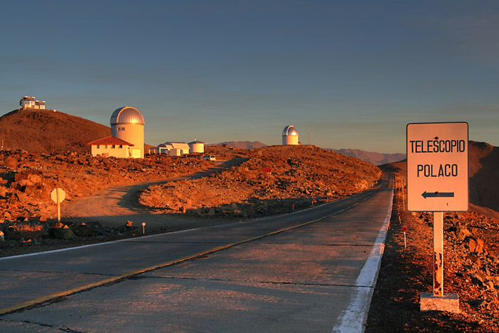 Polish Telescope at Las Campanas Observatory.